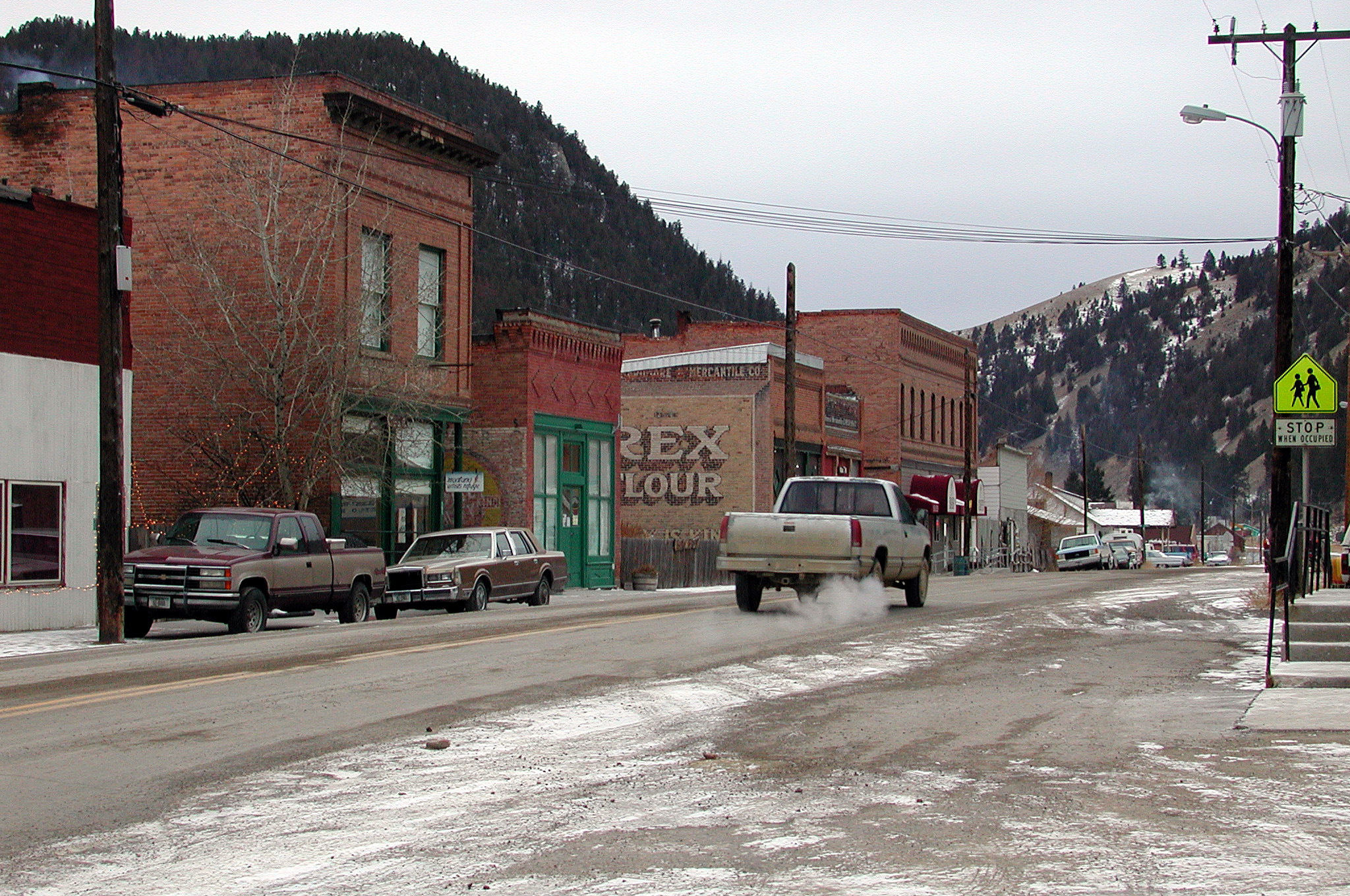 Basin Street in Basin, Montana. The building with Rex Flour on its side is the Basin Community Hall. The two brick buildings to the left of the community hall contain the offices, studios, and artists' apartments of the Montana Artists Refuge.